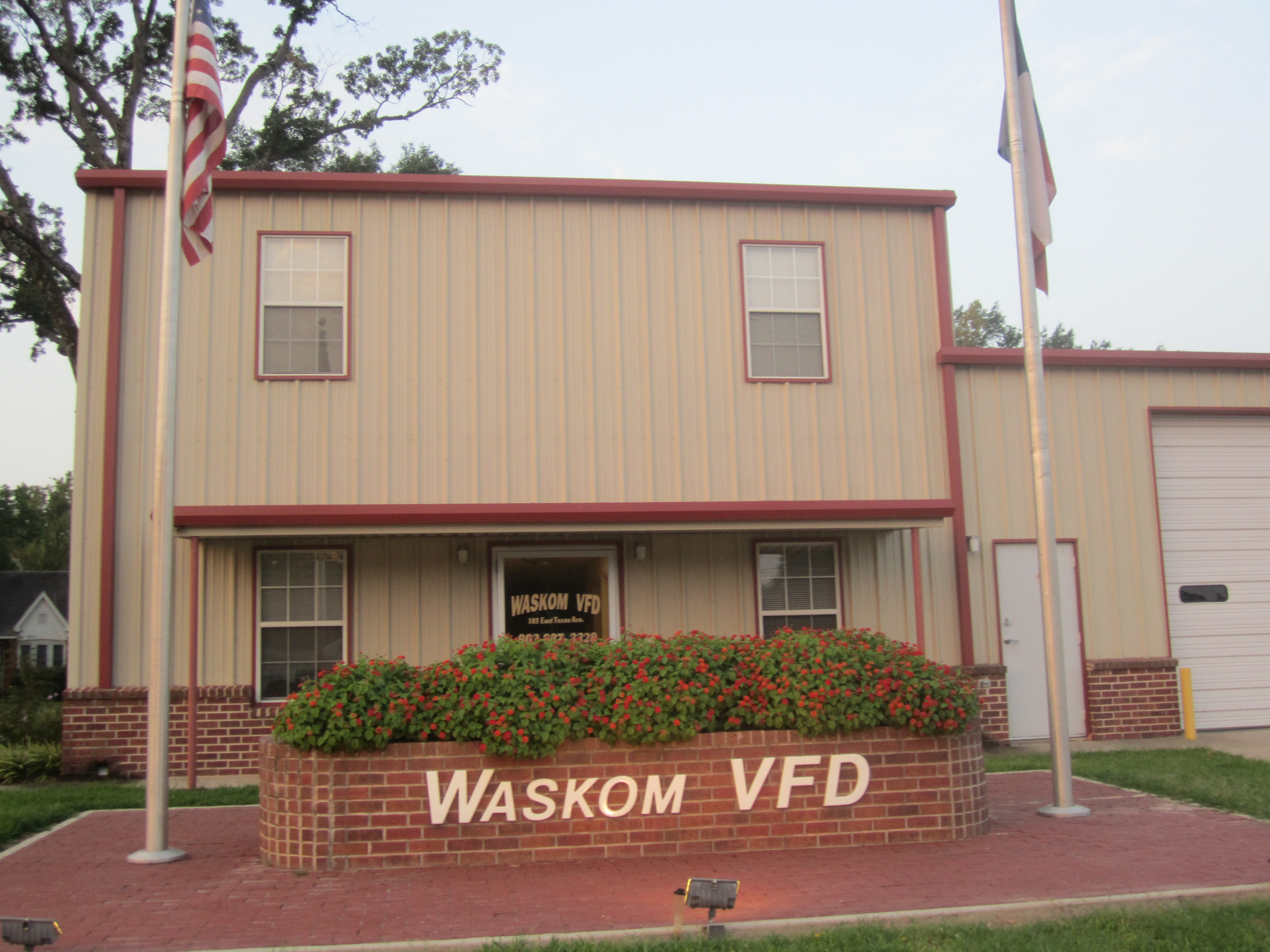 I took photo in Waskom, TX, with Canon camera.